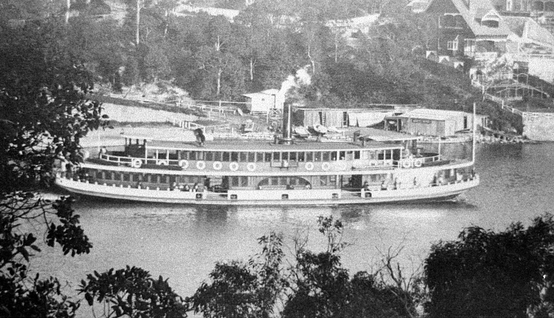 Sydney Ferry KUMMULLA in Mosman Bay ca 1903, Graeme Andrews, Ferry KUMMULLA in Mosman Bay. (01/01/1903 - 31/12/1903), [A-00075967]. City of Sydney Archives, accessed 22 Mar 2020